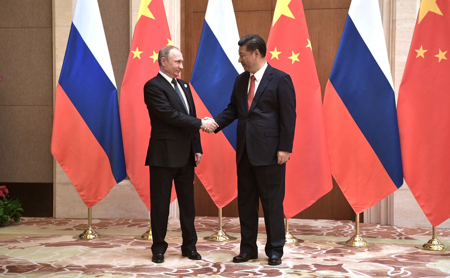 President Vladimir Putin with President of China Xi Jinping